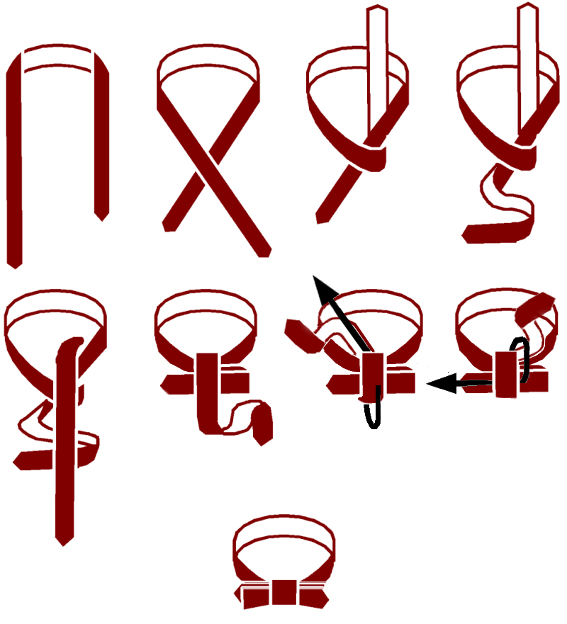 How to tie a bowtie: This is the second, rarely used, option showing how to tie a bowtie. Another option can be found here Image:HowToTieBowtie VersionA.png or Image:HowToTieBowtie VersionB.png.